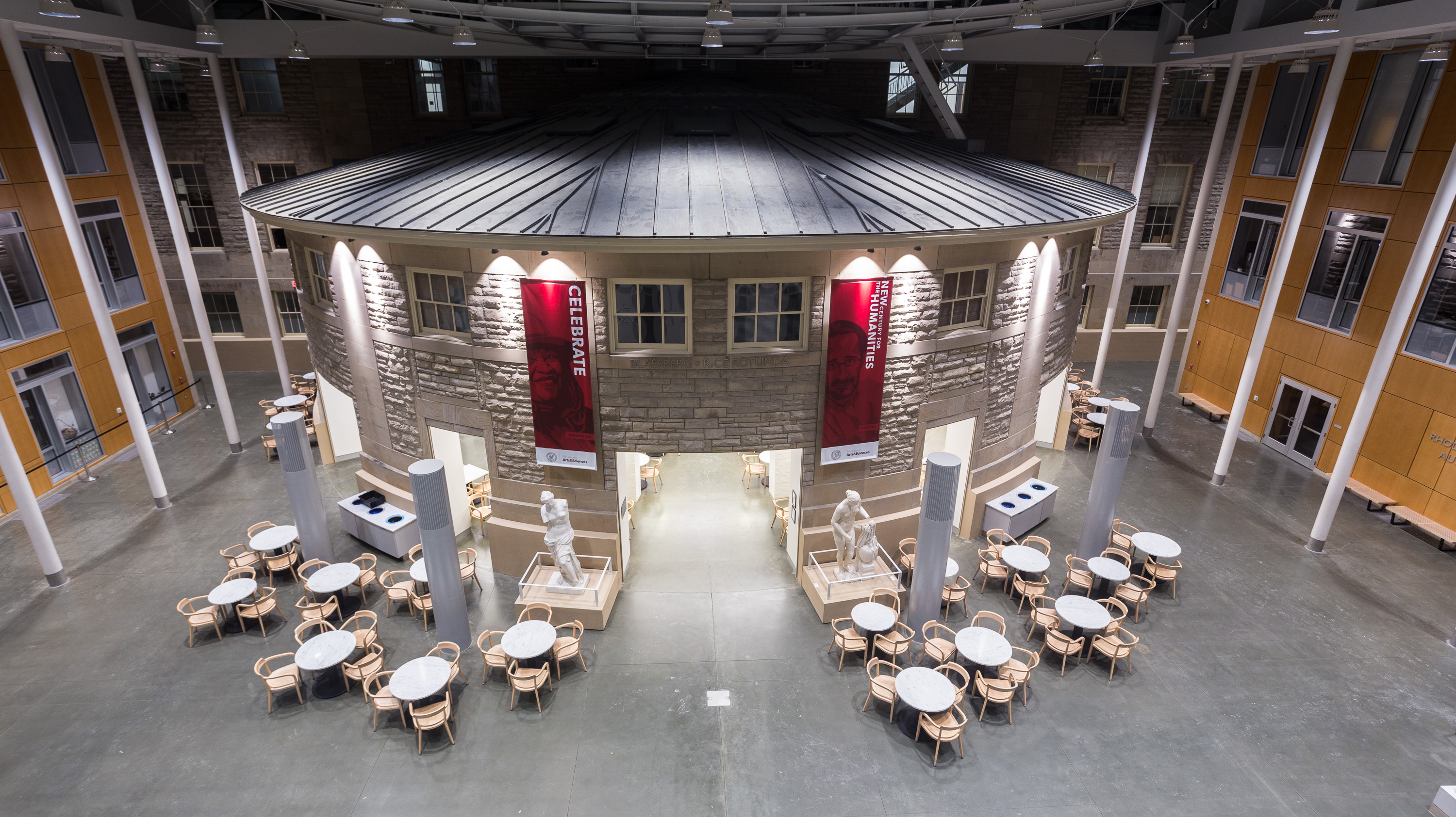 Inside Klarman Hall, Cornell University. The circular stone wall is the rear of Goldwin Smith Hall.